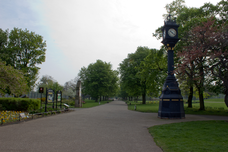 Albert Park, Middlesbrough, taken in 2011.